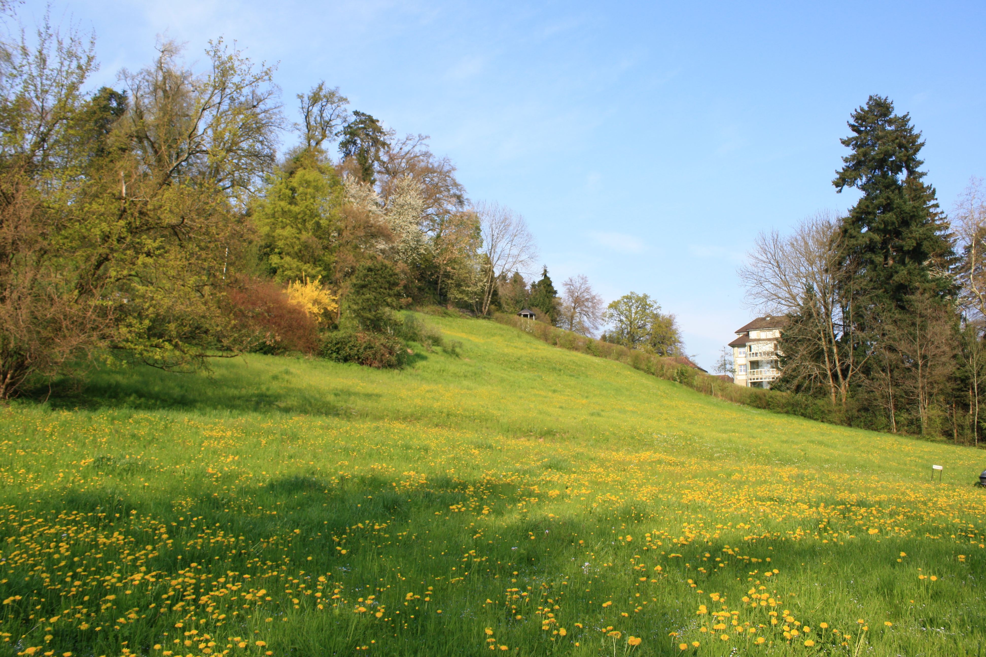 Meienberg nearby Rapperswil respectively Jona (Switzerland), as seen from Hanfländer.